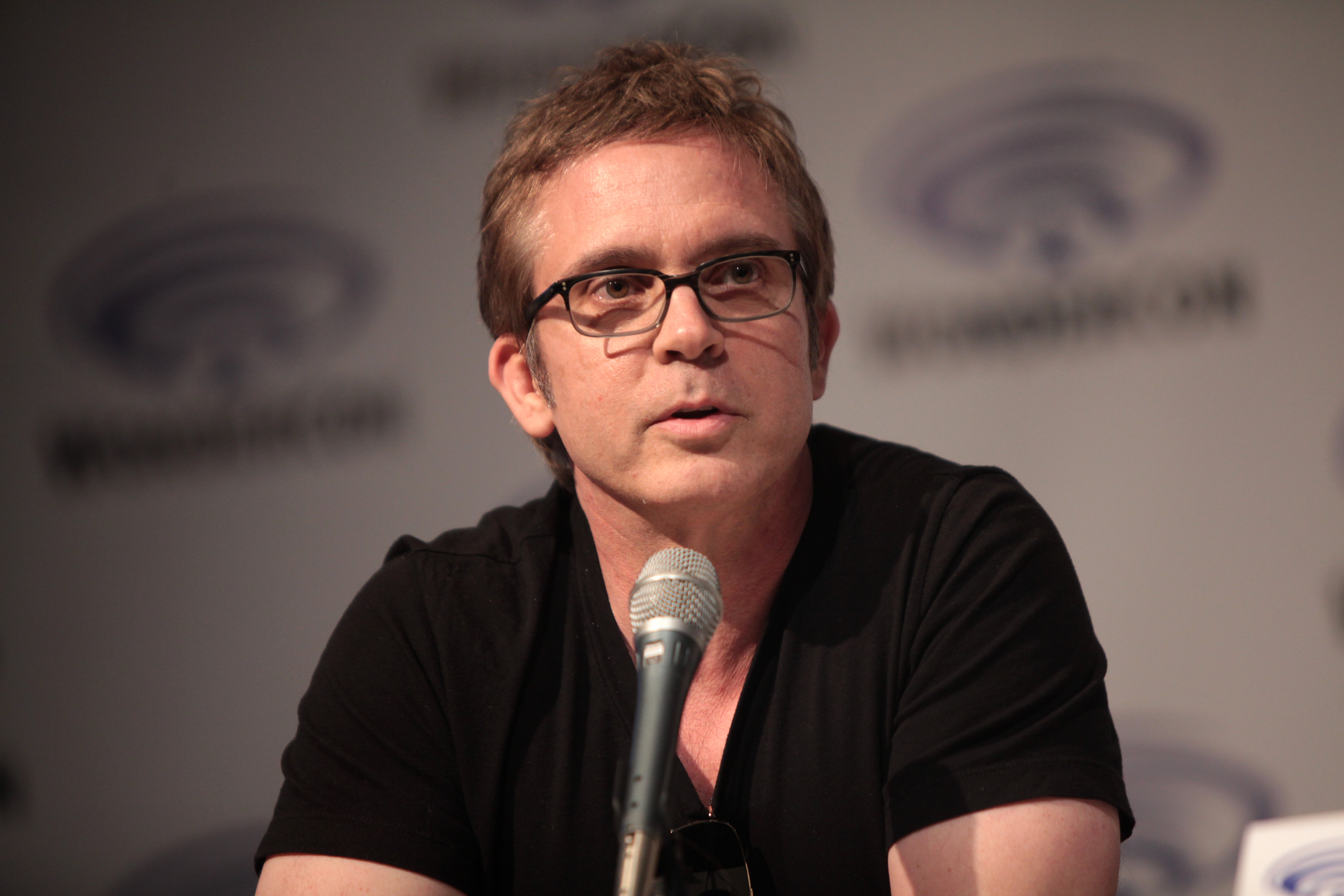 Brannon Braga speaking at the 2015 Wondercon, for "Salem", at the Anaheim Convention Center in Anaheim, California.